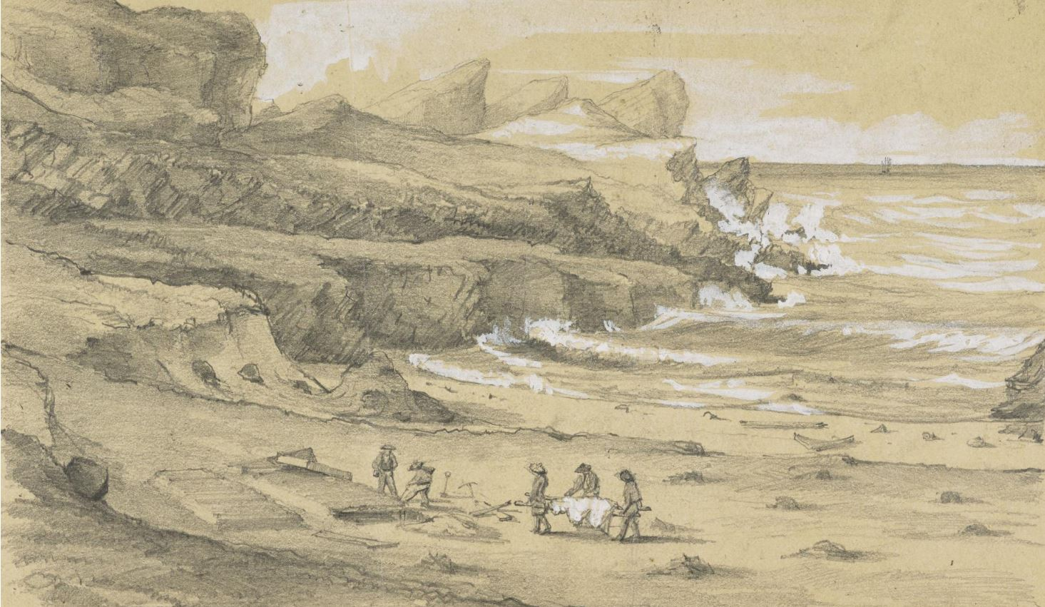 The grave of the crew of the Exmouth by John Francis Campbell. The loss of the emigrant ship Exmouth Castle (ship, 1818) on 28 April, 1847 is one of the most tragic of all of the Islay shipwrecks. The ship owned by Mr. John Eden of South Shields had departed from Londonderry bound for Quebec on Sunday 25 April with two hundred and forty emigrants plus an additional three women passengers and eleven crew aboard. A memorial was erected near Sanaigmore Bay as a reminder of this terrible tragedy. This memorial is dedicated to the memory of 241 Irish emigrants who lost their lives on the 28th April 1847, when the brig 'The Exmouth of Newcastle' out of Derry and bound for Quebec Canada at the time of the great famine, was wrecked on the NW coast of Islay (on the southern side of Coul Point). 108 bodies, mostly women and childeren (63 under the age of 14, and 9 infants) were recovered and are buried under the soft green turf of Traigh Bhan. May their souls rest forever in the Peace of Christ. Some controversy about the name of this ship, Exmouth, or Exmouth Castle. The original title of the drawing is The grave of the crew of the Exmouth.